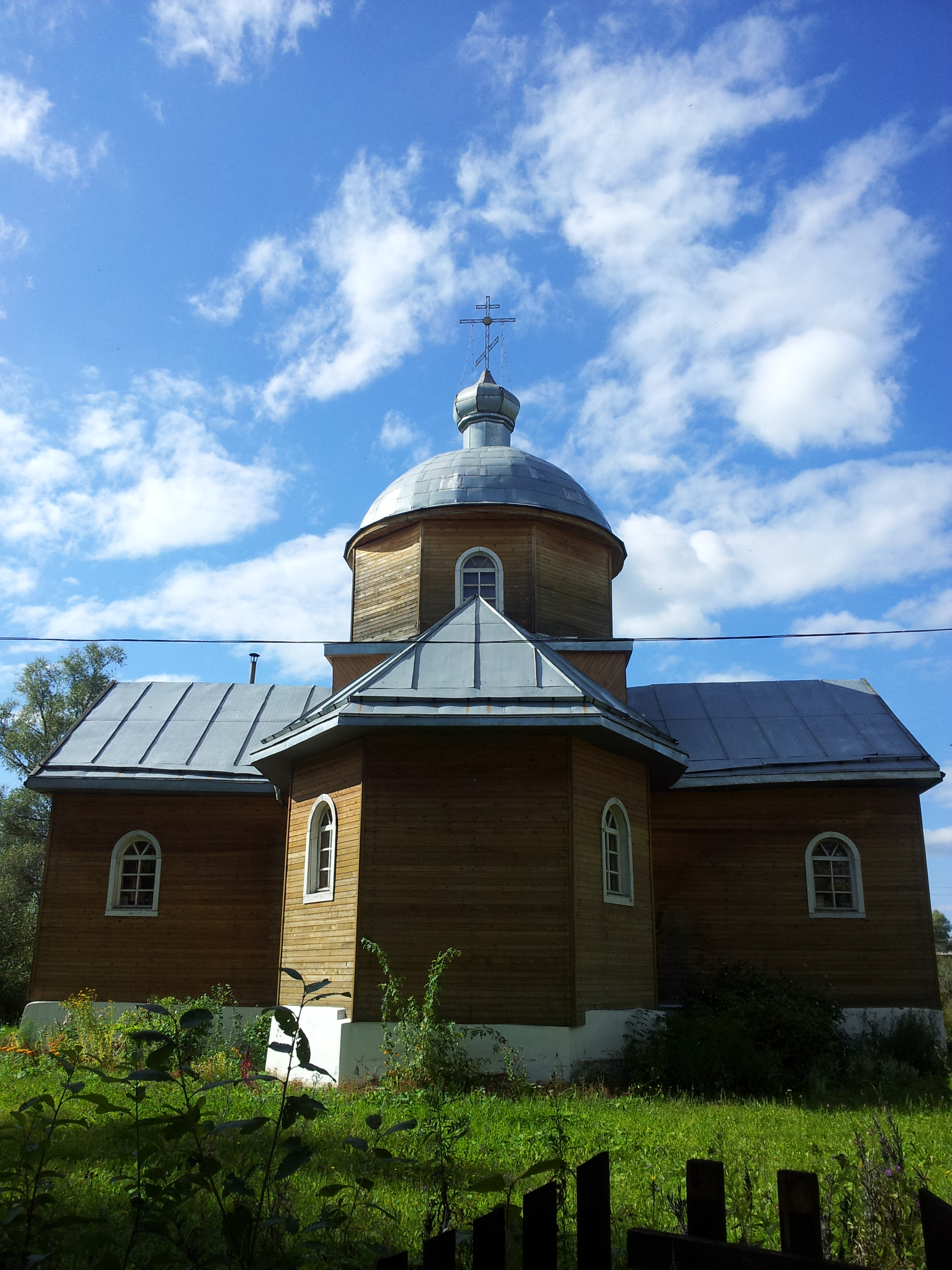 Church of the Nativity of the Holy Theotokos in Volot, Novgorod Oblast, Russia